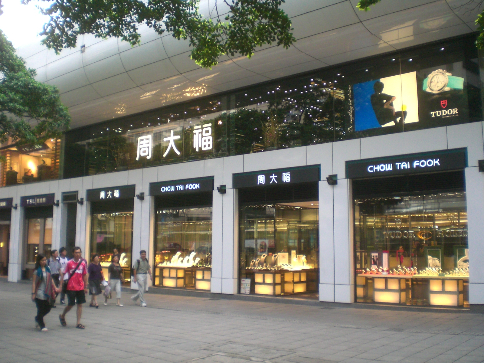 尖沙咀